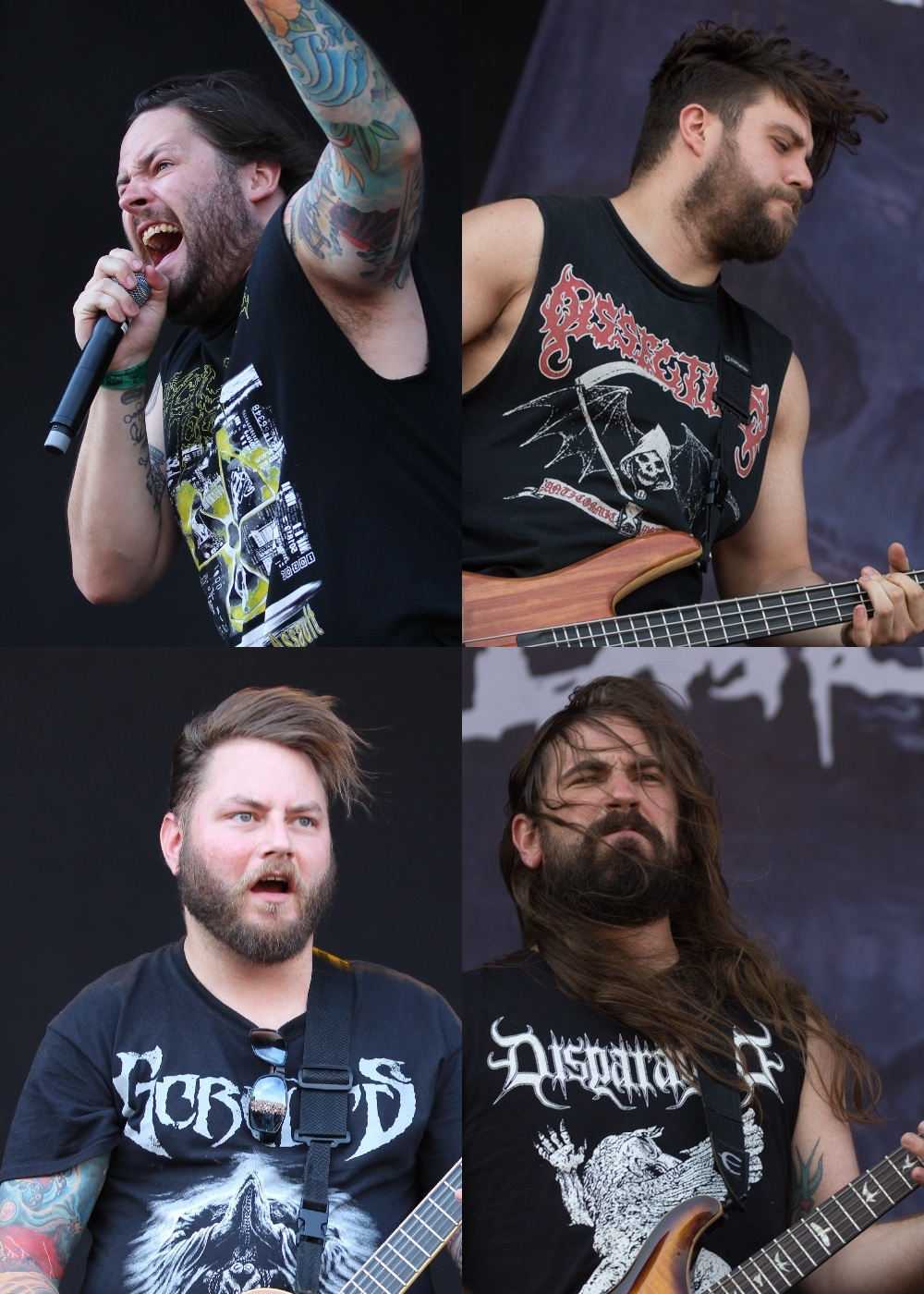 The Black Dahlia Murder performing at With Full Force Festival in Germany on 4 July 2014. Clockwise starting from top left: vocalist Trevor Strnad, bassist Max Lavelle, lead guitarist Ryan Knight and rhythm guitarist Brian Eschbach. Drummer Alan Cassidy is not included.